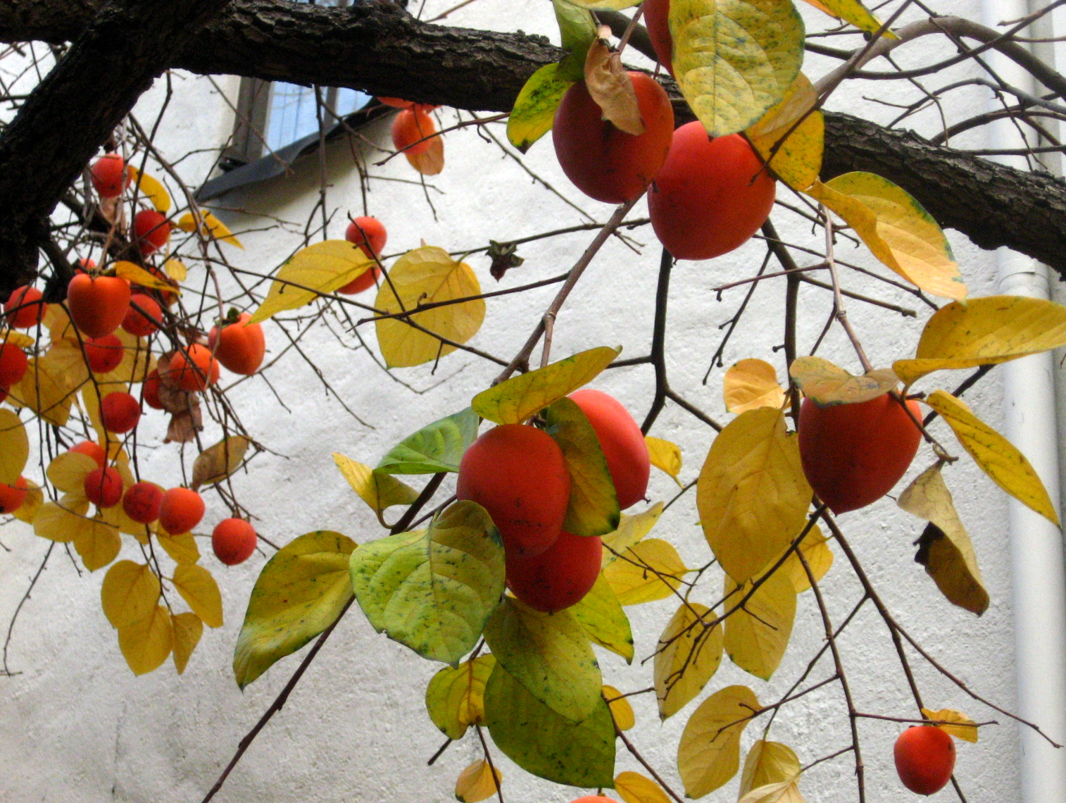 Ripe Hachiya persimmons on a tree in Los Angeles, California, in December.